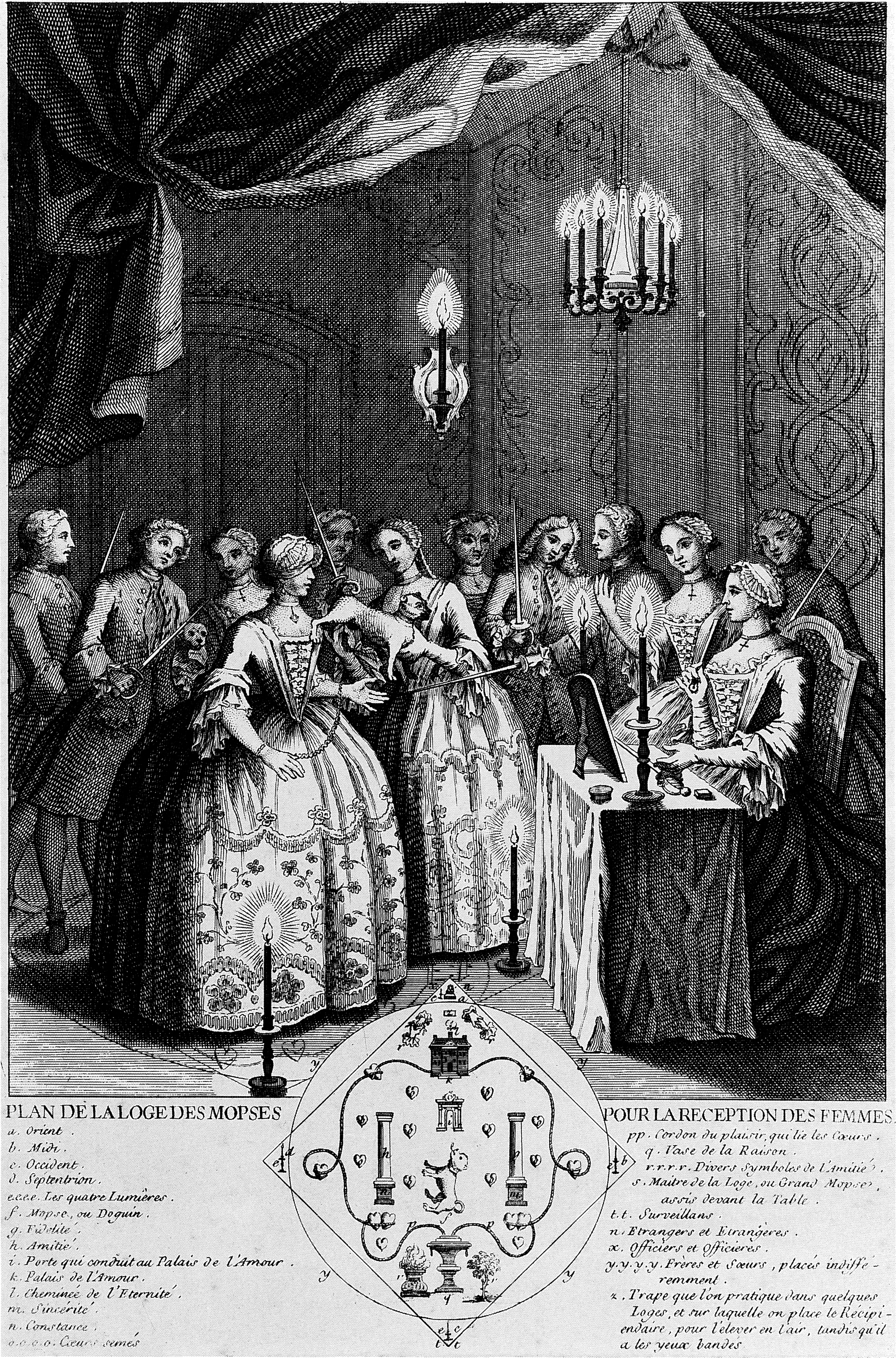 Reception of a Lady into the Order of Mopses